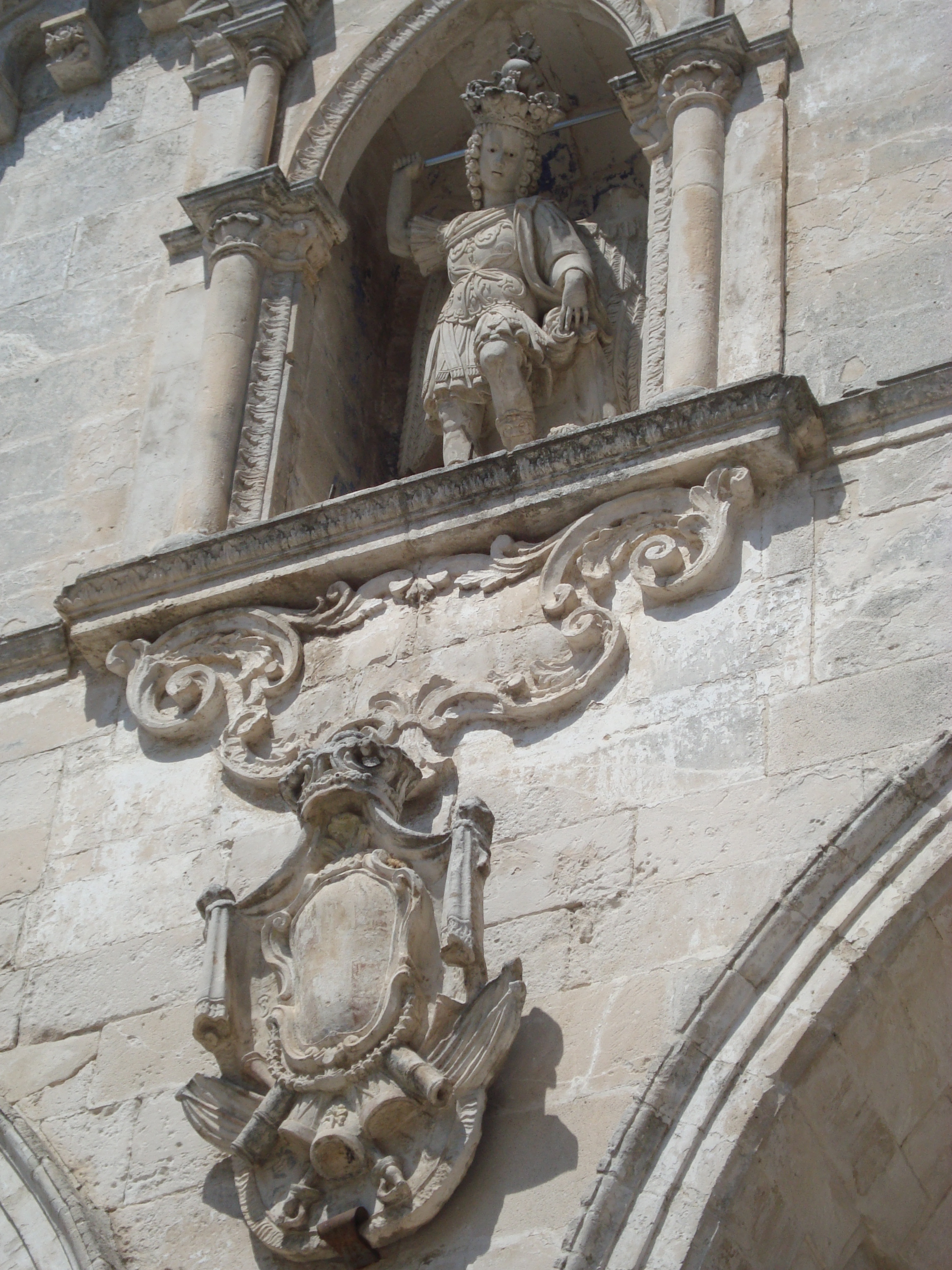 Statue of Saint Michael in Monte Sant'Angelo